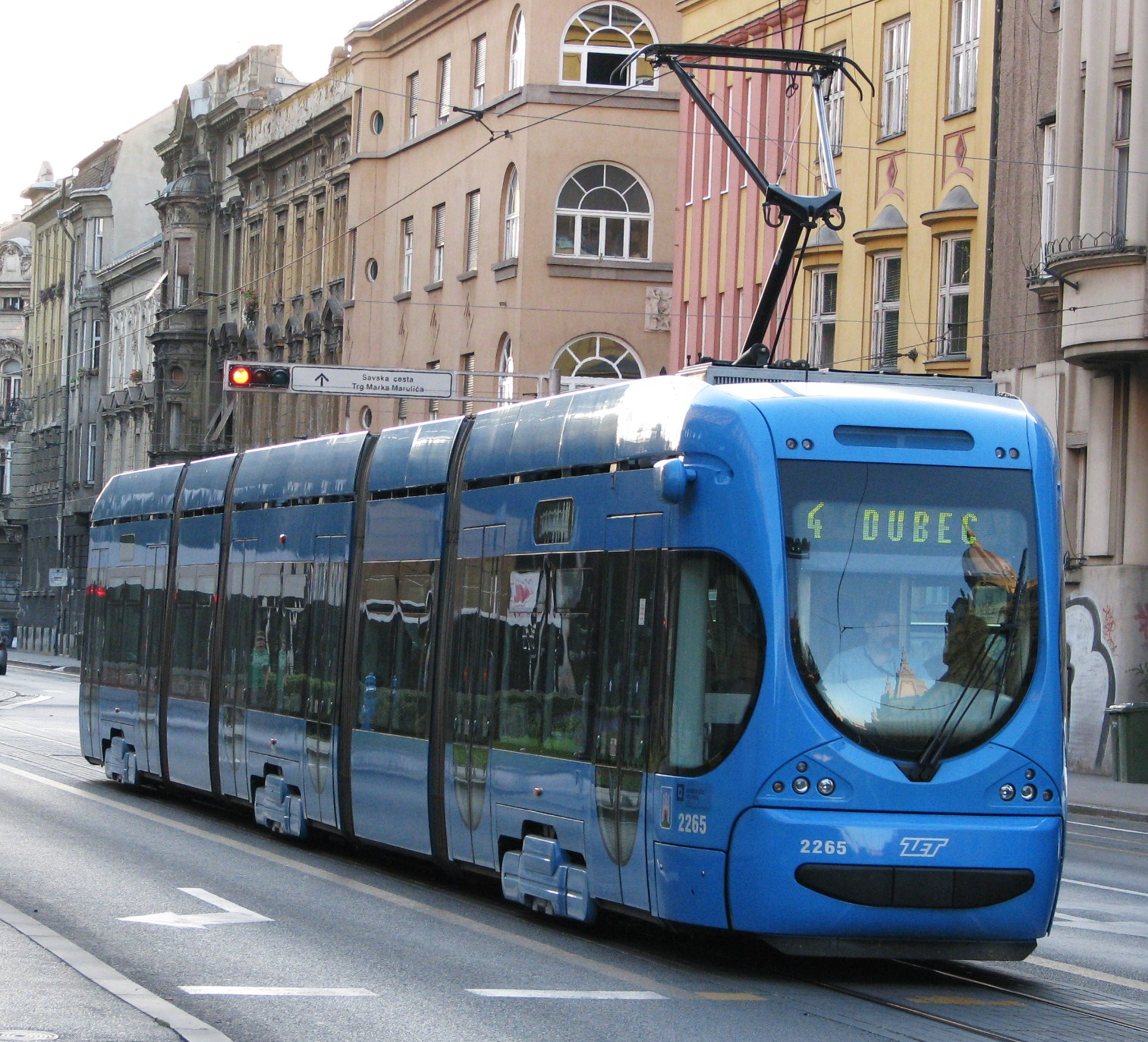 Crotram TMK 2200 tram (#2265) in Zagreb, Croatia. Built 2007.